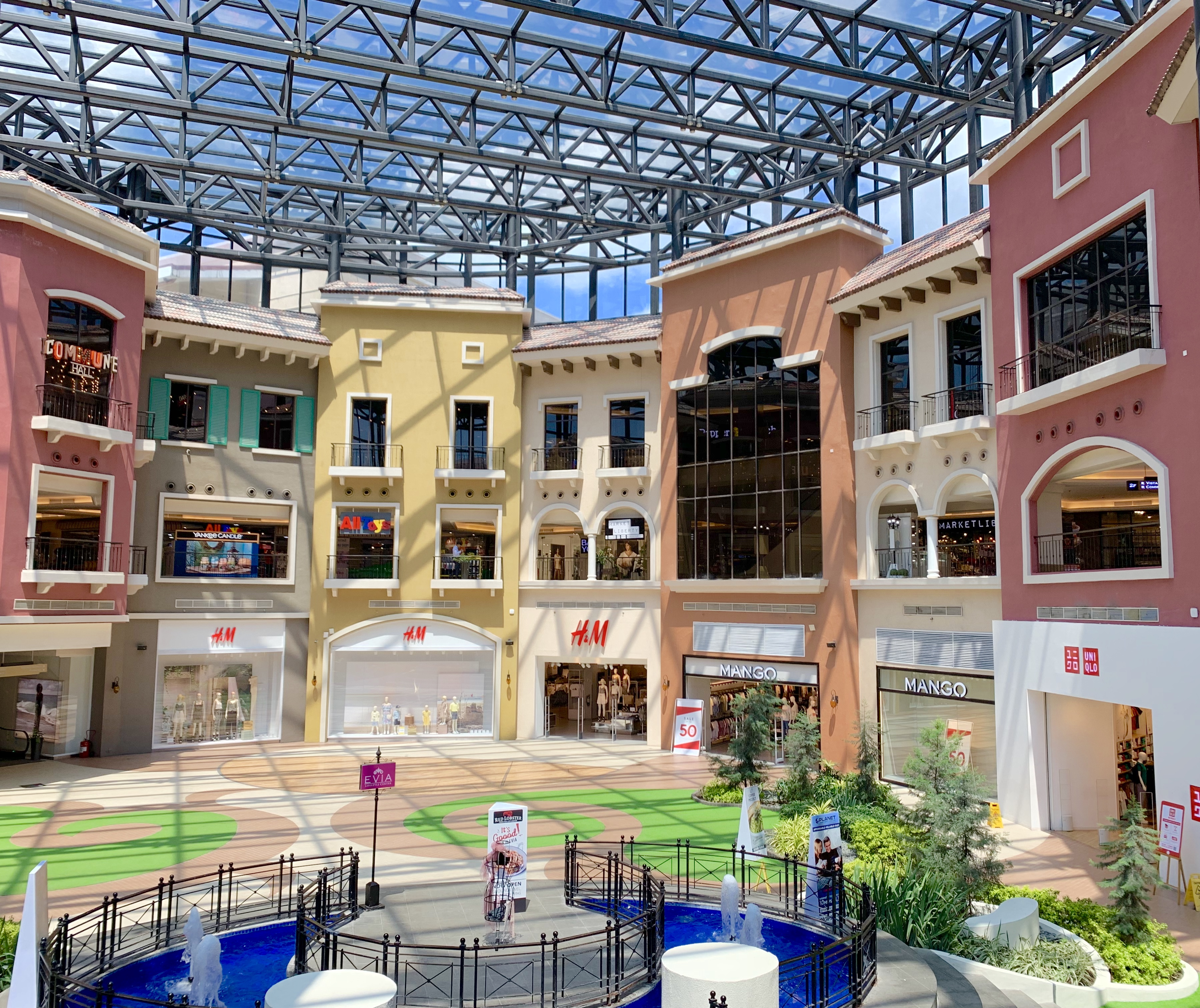 The crown jewel of Vista Land’s Vista Alabang Masterplanned City Development, Evia serves as urban Alabang’s premier retail, entertainment and dining destination, housing the country’s top global fashion brands and buzz-worthy food concepts.